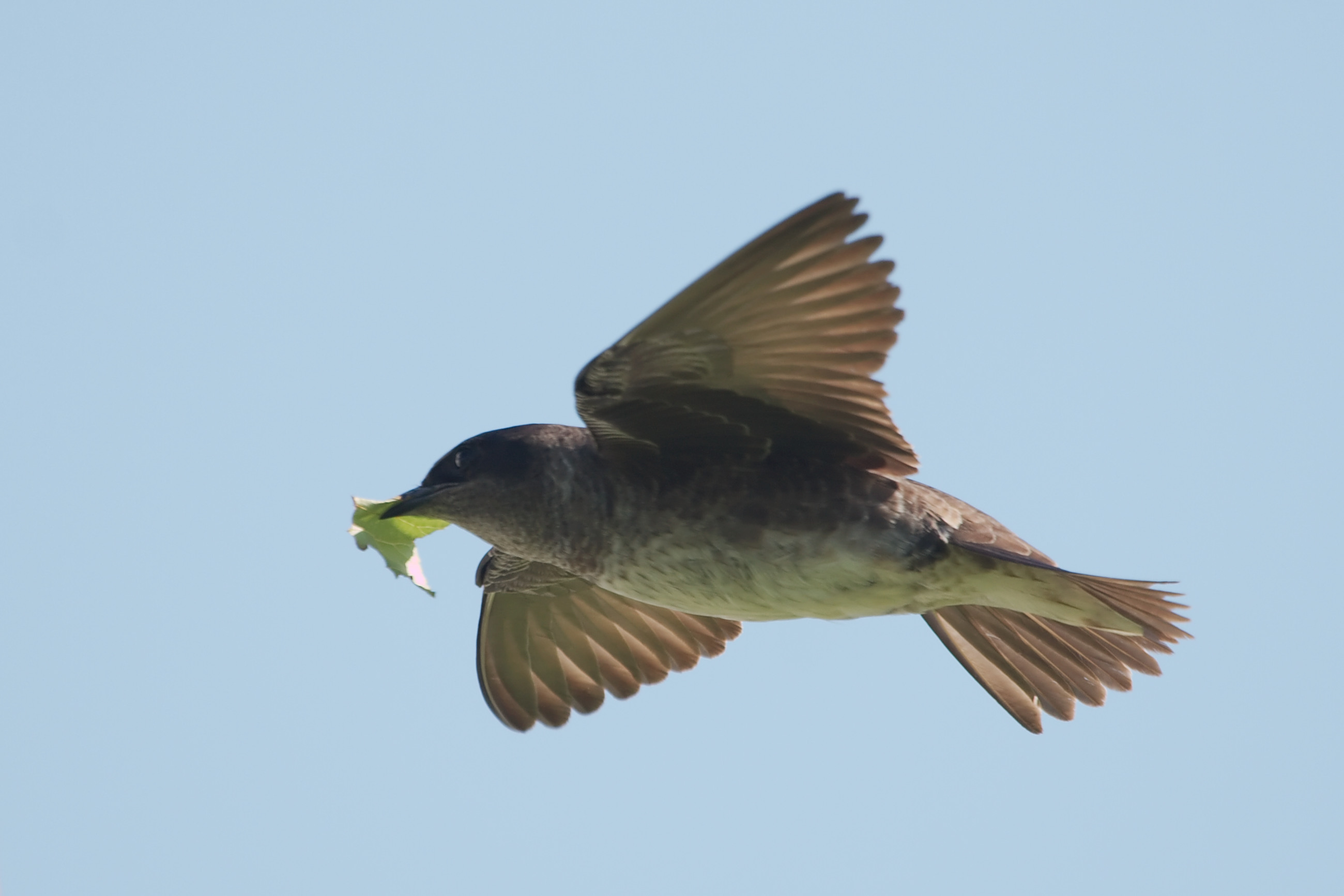 A Purple Martin (Progne subis), taken at the Horicon National Wildlife Refuge, Wisconsin